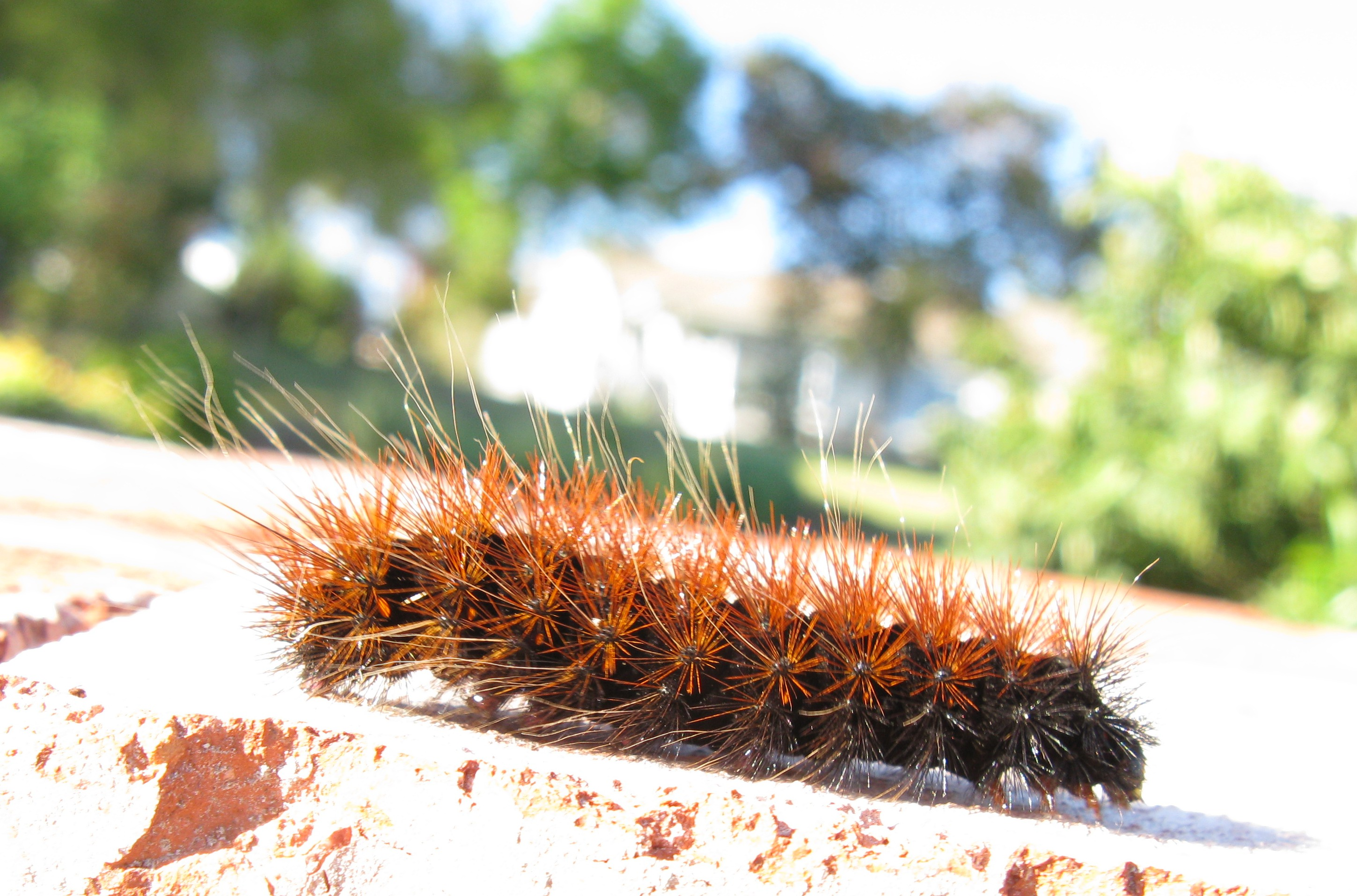 Rhodogastria amasis, family Arctiidae, may be the most familiar South African Tiger moth. The "woolly-bear" larvae bear sharp spines